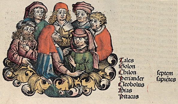 Woodcut from the Nuremberg Chronicle